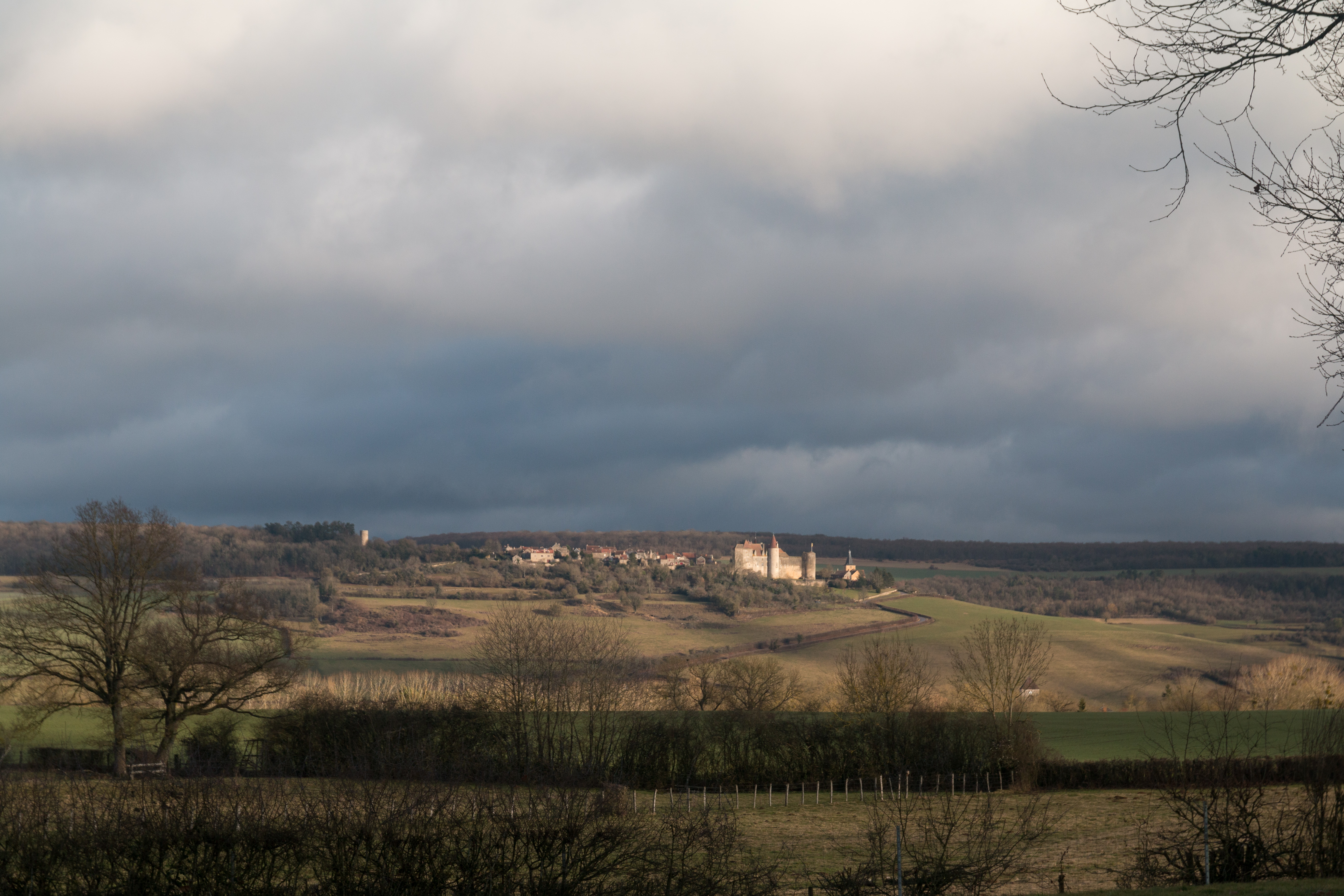 The castle of Châteauneuf seen front the rest area "La Rampotte" on the highway A6 at Maconge.